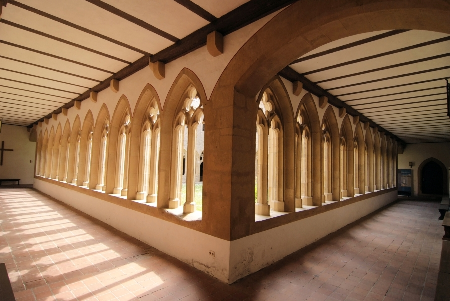 Augustinerkloster in Erfurt Kreuzgang